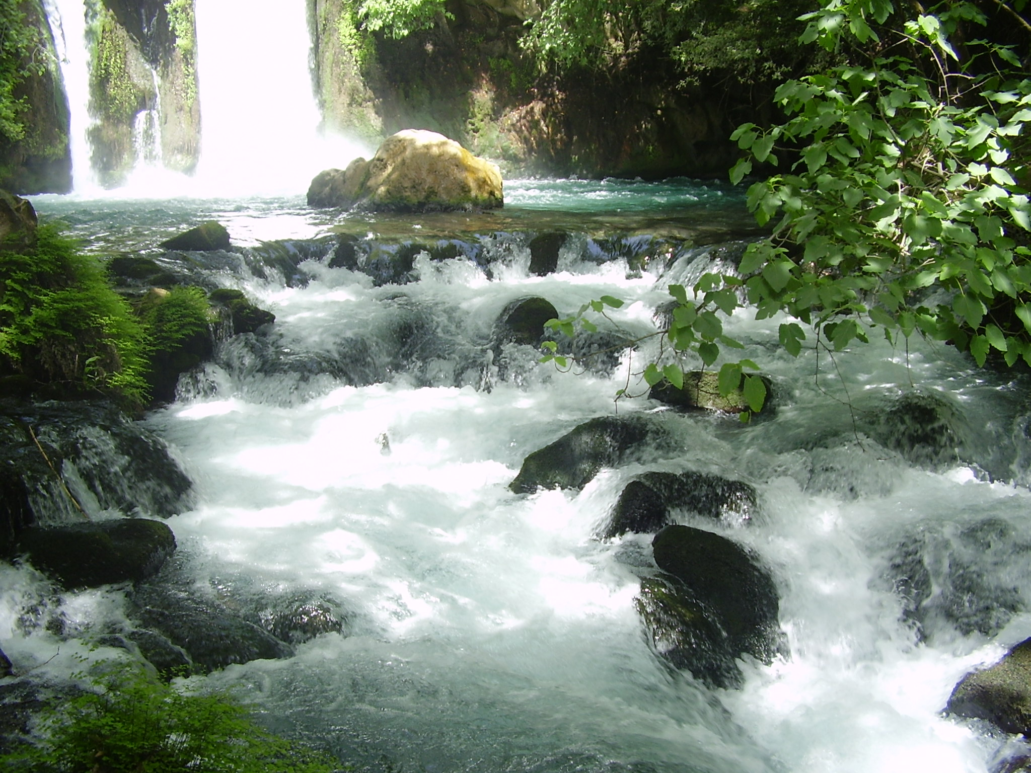 Banias spring, israel